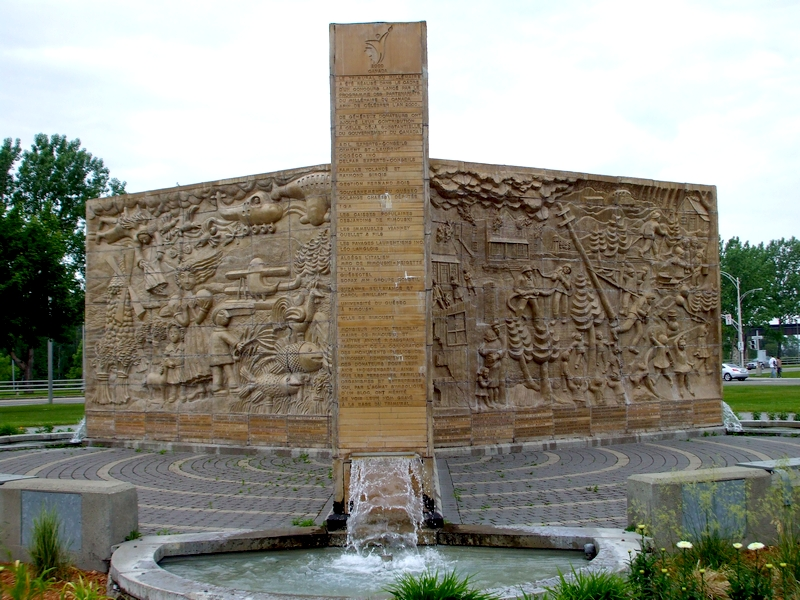 The Millennium Trimural (2000) in Rimouski, Quebec, Canada. By Roger Langevin sculptor 2012-06-23